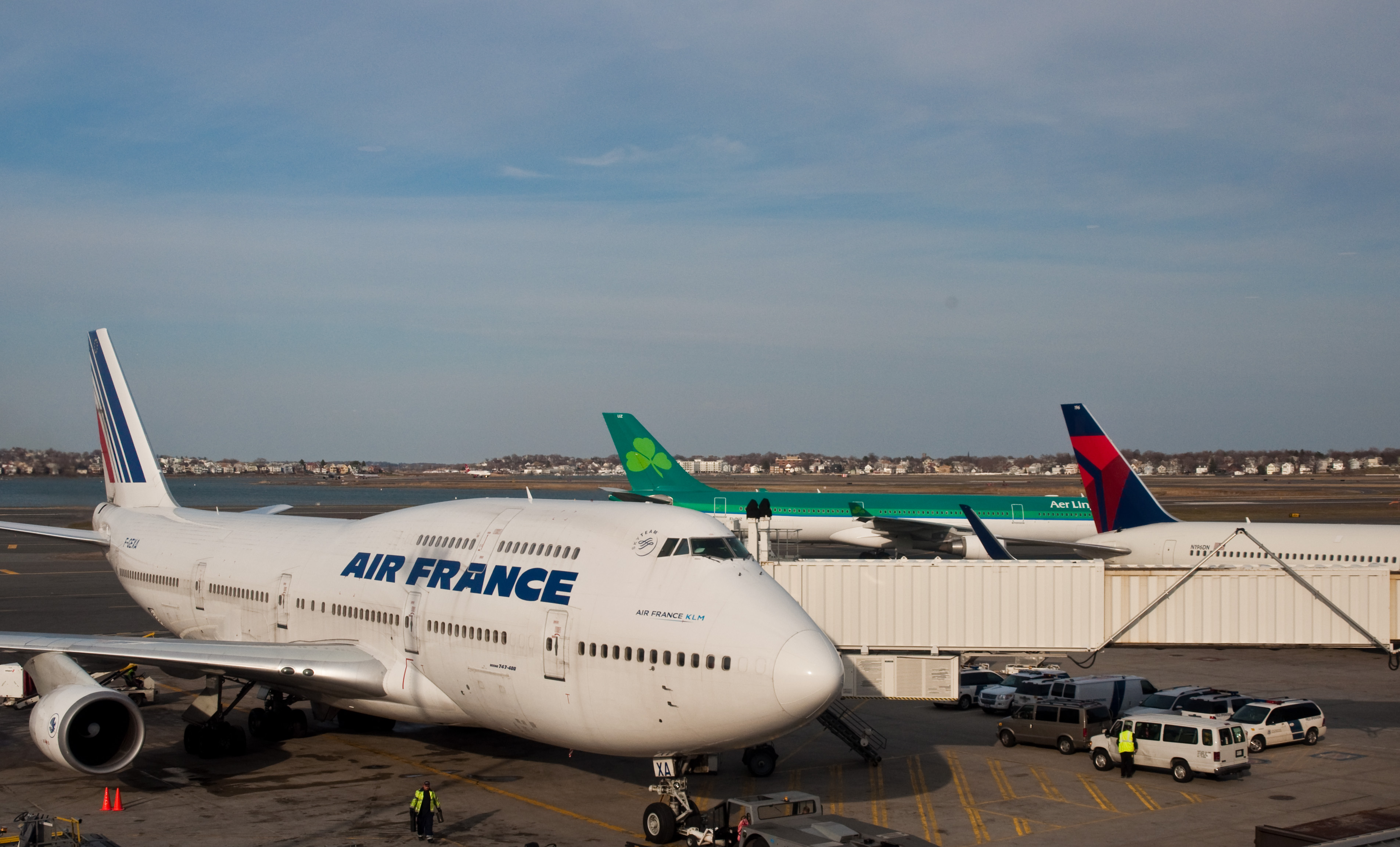 Boeing 747-400 F-GEXA of Air France in Boston Logan International Airport, USA (April 2011).